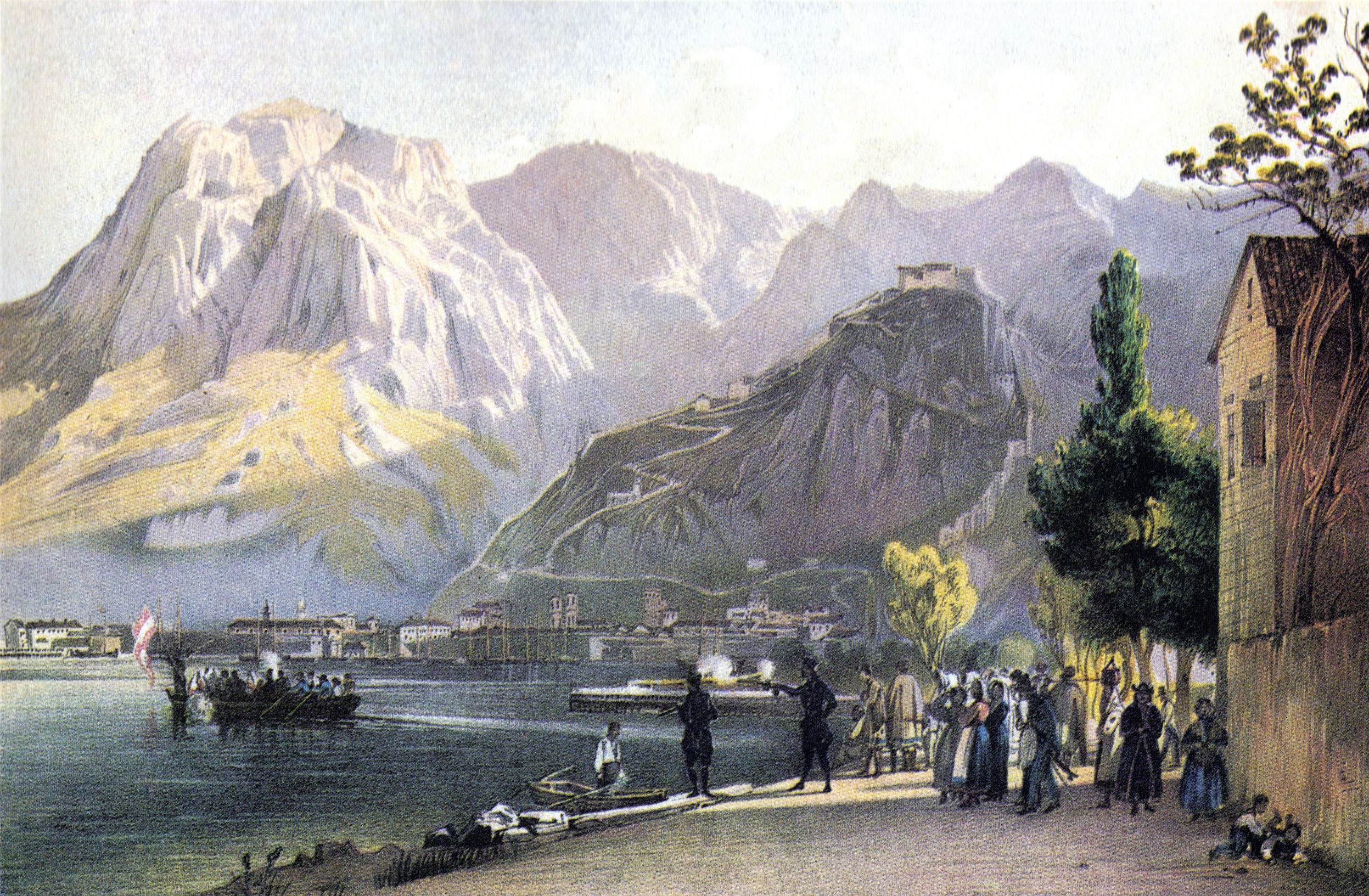 Kotor (then called Cattaro) around 1840.